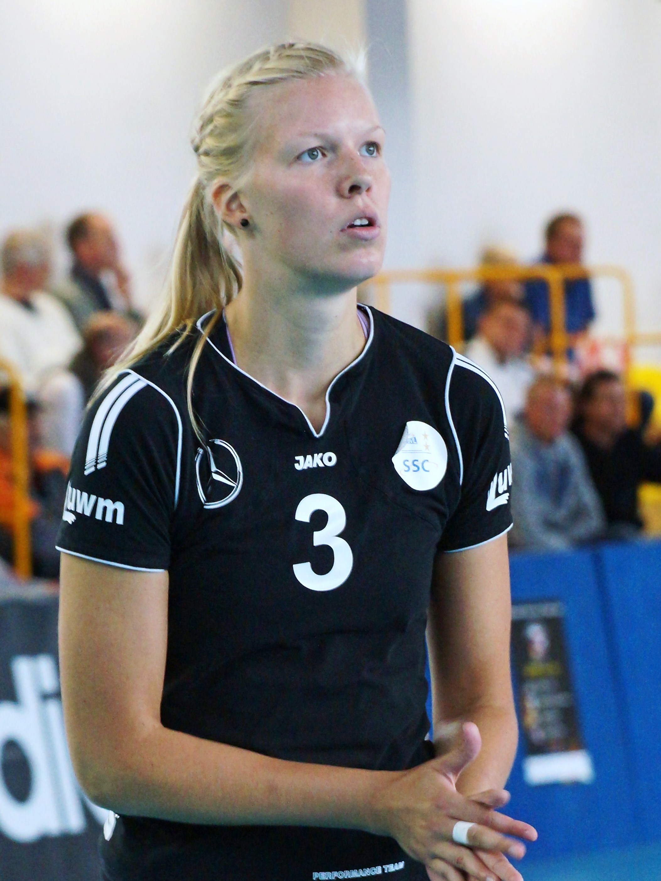 Finland volleyball player Laura Pihlajamäki